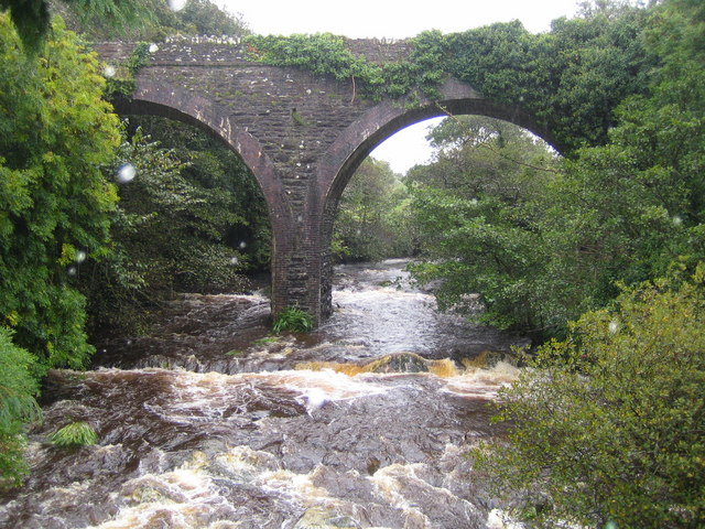 Finglas River and disused railway viaduct Viewed looking upstream from Curraduff Bridge on the N86 road to Dingle, this is the Finglas River in spate after a night of heavy rain. The viaduct carried the former Tralee & Dingle Railway over the river. The railway closed in 1953.